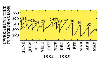 This graph shows a one-year record of tilt from the Uwekahuna tiltmeter located on rim of Kilauea's caldera. When the tiltmeter record showed an increase in slope angle (microradians) the ground was tilting away from the caldera, which indicates the summit area was inflating with magma. Then, when lava within Pu`u `O`o filled and overflowed the crater or began fountaining, the summit tiltmeter record suddenly showed a decrease in slope angle or deflation. After the eruption, the tiltmeter once again recorded a steady outward tilt.